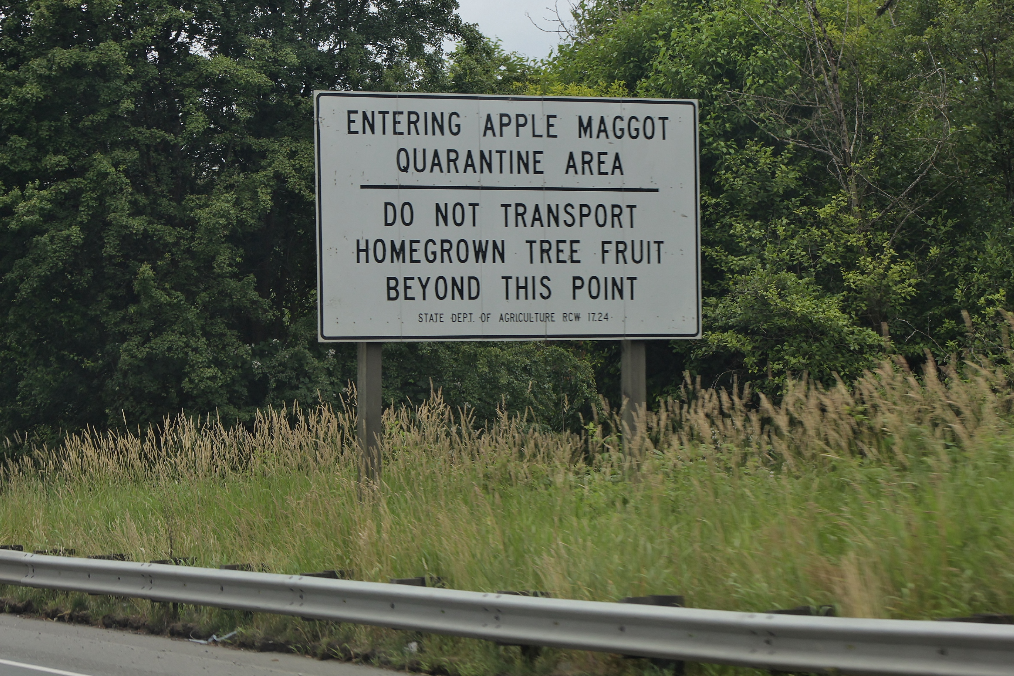 A sign for the Apple Maggot Quarantine Area on State Route 522 westbound approaching Woodinville in the Seattle metropolitan area.